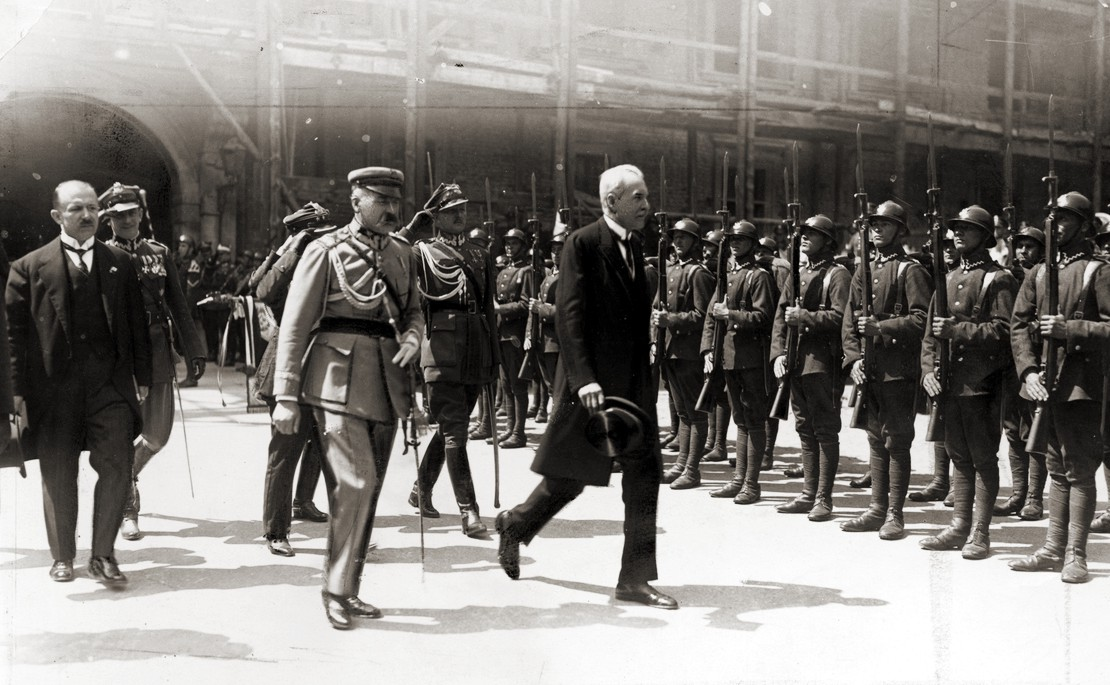 Ignacy Mościcki, Józef Piłsudski i Kazimierz Bartel, Warsaw 4.06.1926. Ignacy Mościcki is coming on the Royal Castle for his presidential oath